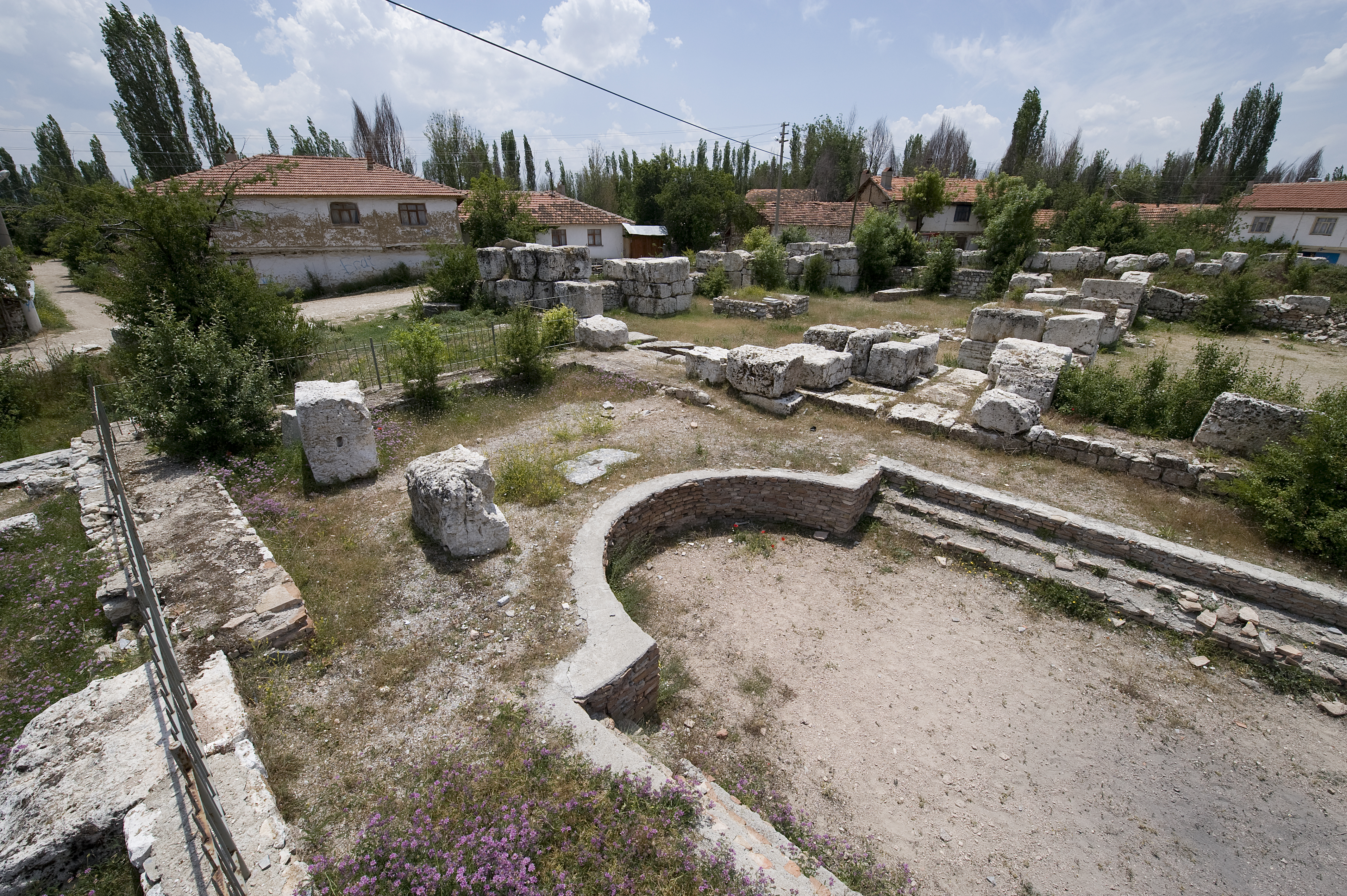 Probably in the second half of the third century AD, a second bath was built into a sturdy edifice of large limestone blocks that was already standing in the northeastern part of the city. One of the halls of this bath contains a well-preserved mosaic floor displaying a satyr and a maenad in the centre. Some time after the fourth or fifth century AD, the main hall of the bath complex was once more rebuilt in order to serve as the seat for the newly appointed bishop and head of the early Christian municipality of Aizanoi (text at site). On the foreground: the frigidarium, with its cold plunge-bath. Large ones were also swimming pools. Usually situated on the north side of the baths complex; sometimes the water was kept cold by using snow or ice, brought in from nearby mountains.